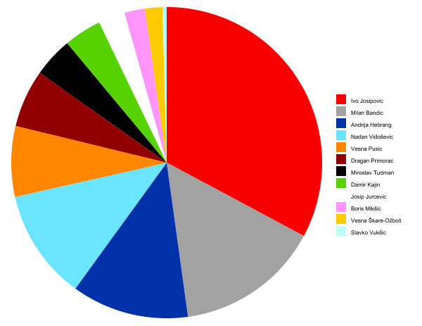 Results of the 2009-2010 Croatian presidential election.